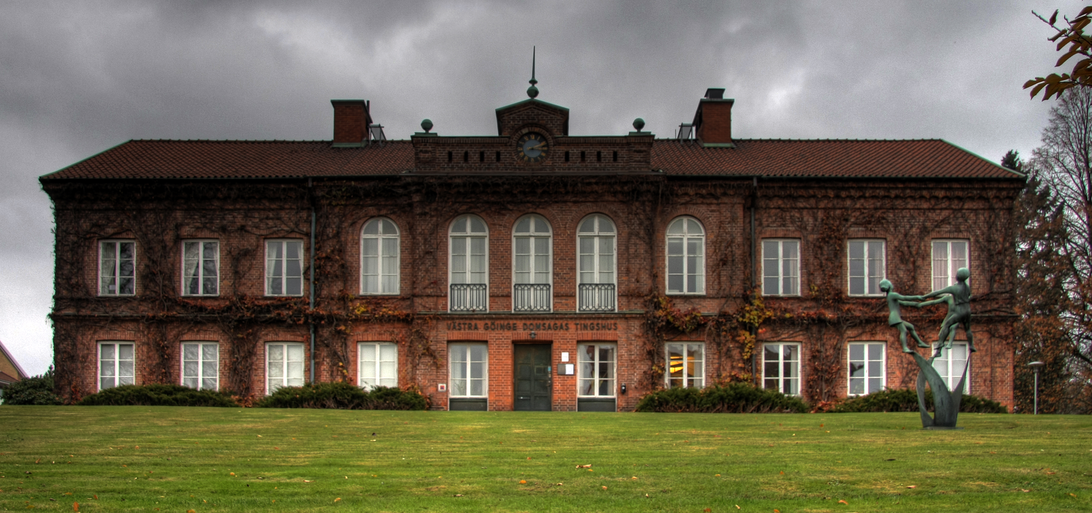 The courthouse in Hässleholm, Sweden